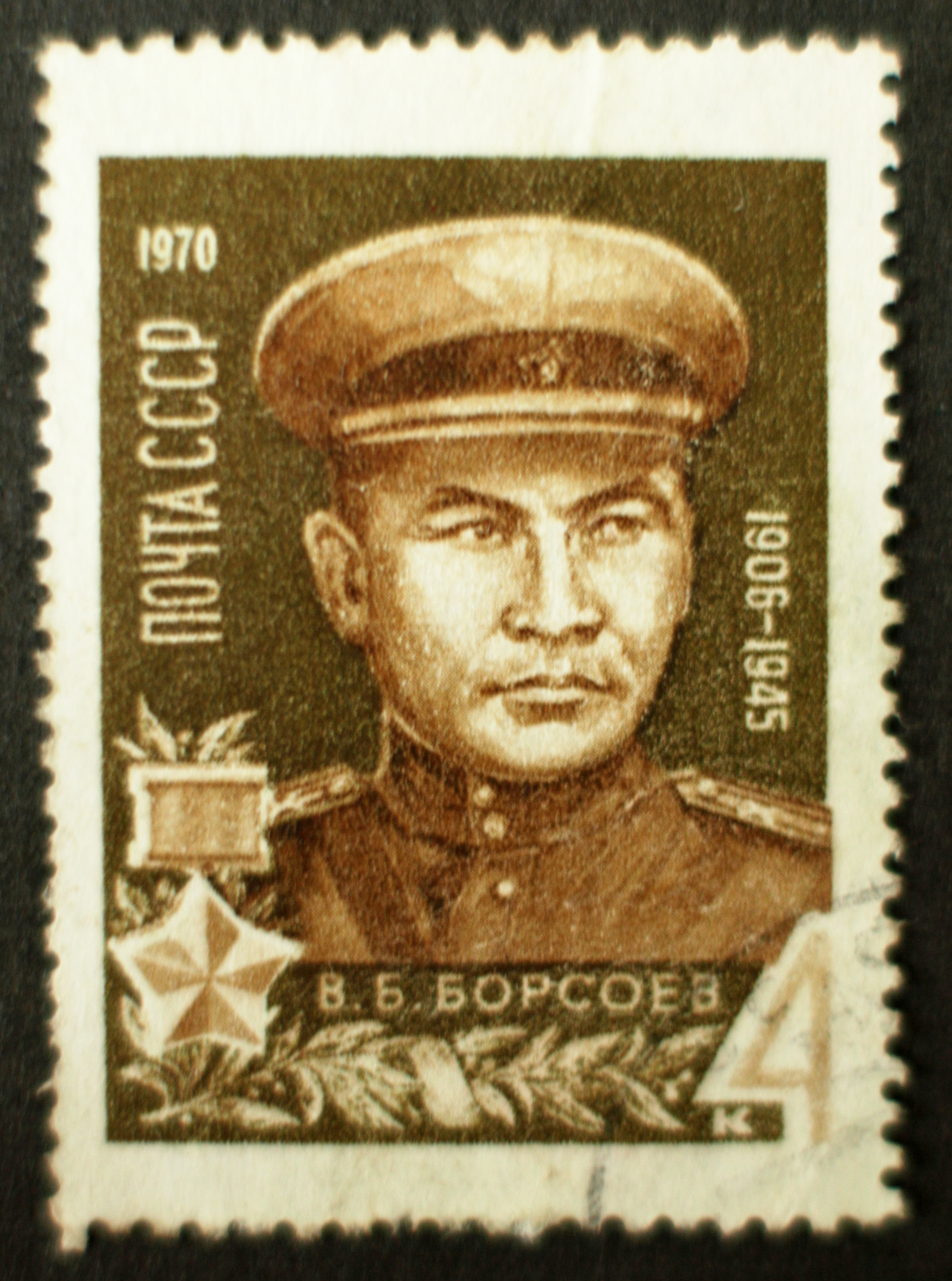 USSR stamps: World War II Hero Colonel of the Guard Vladimir Borsoev. Series: Heroes of World War II